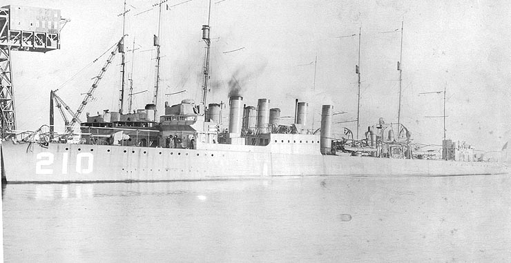 The U.S. Navy destroyer USS Broome (DD-210) in port, circa 1919-1920, probably at the Philadelphia Naval Shipyard, Pennsylvania (USA).